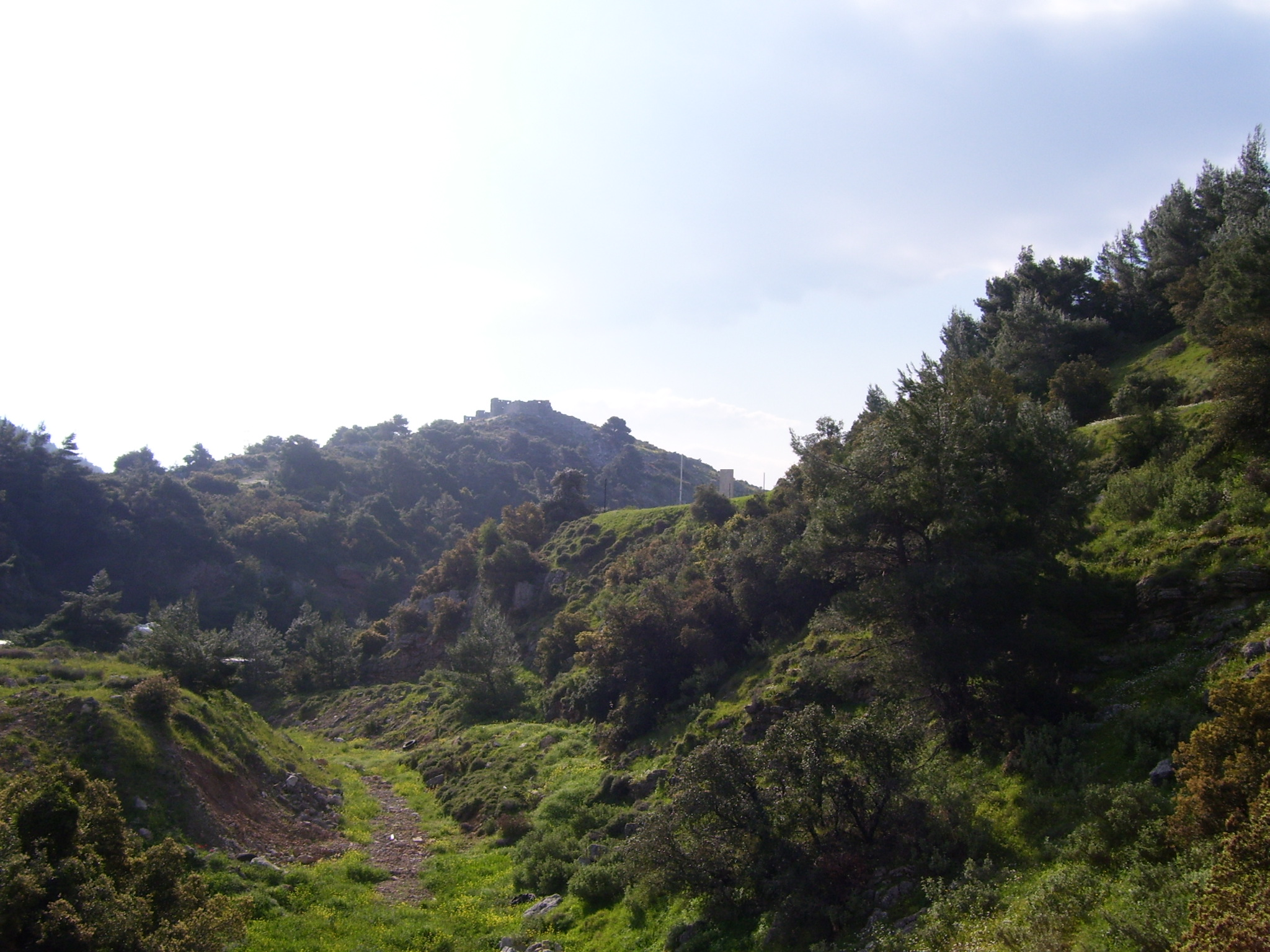 Kaza, location in west attica